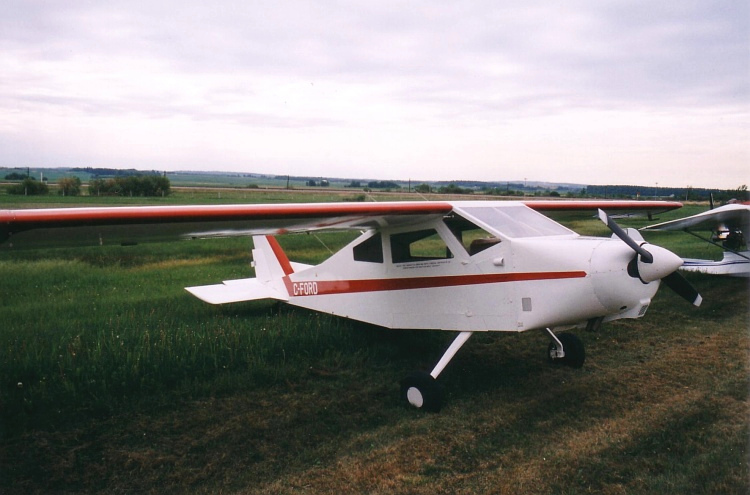 I took this photo of a Bede BD-4 at Lacombe, Alberta in 1998